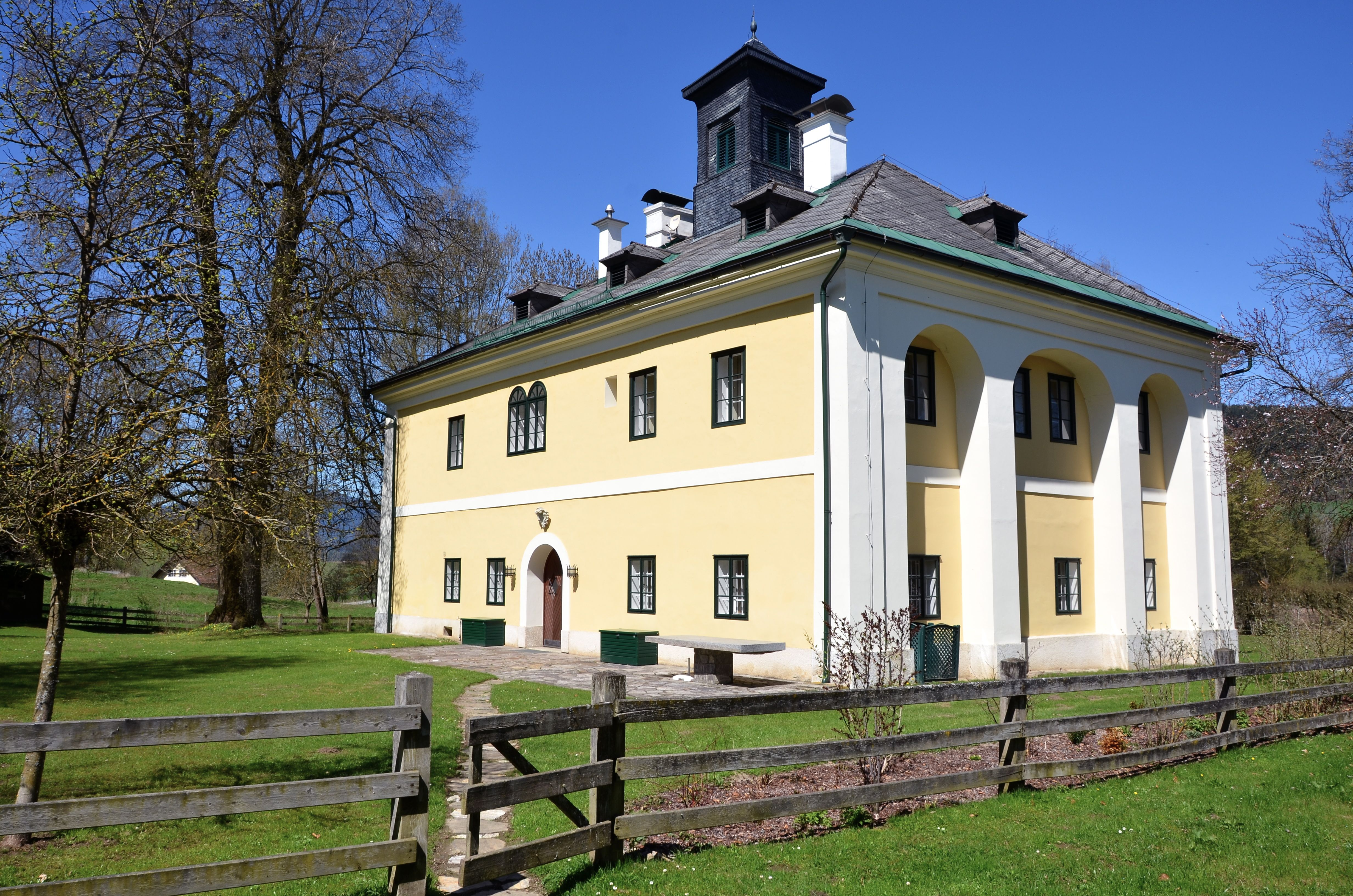 Castle in Dietrichstein #1, municipality Feldkirchen in Kärnten, district Feldkirchen, Carinthia, Austria, EU